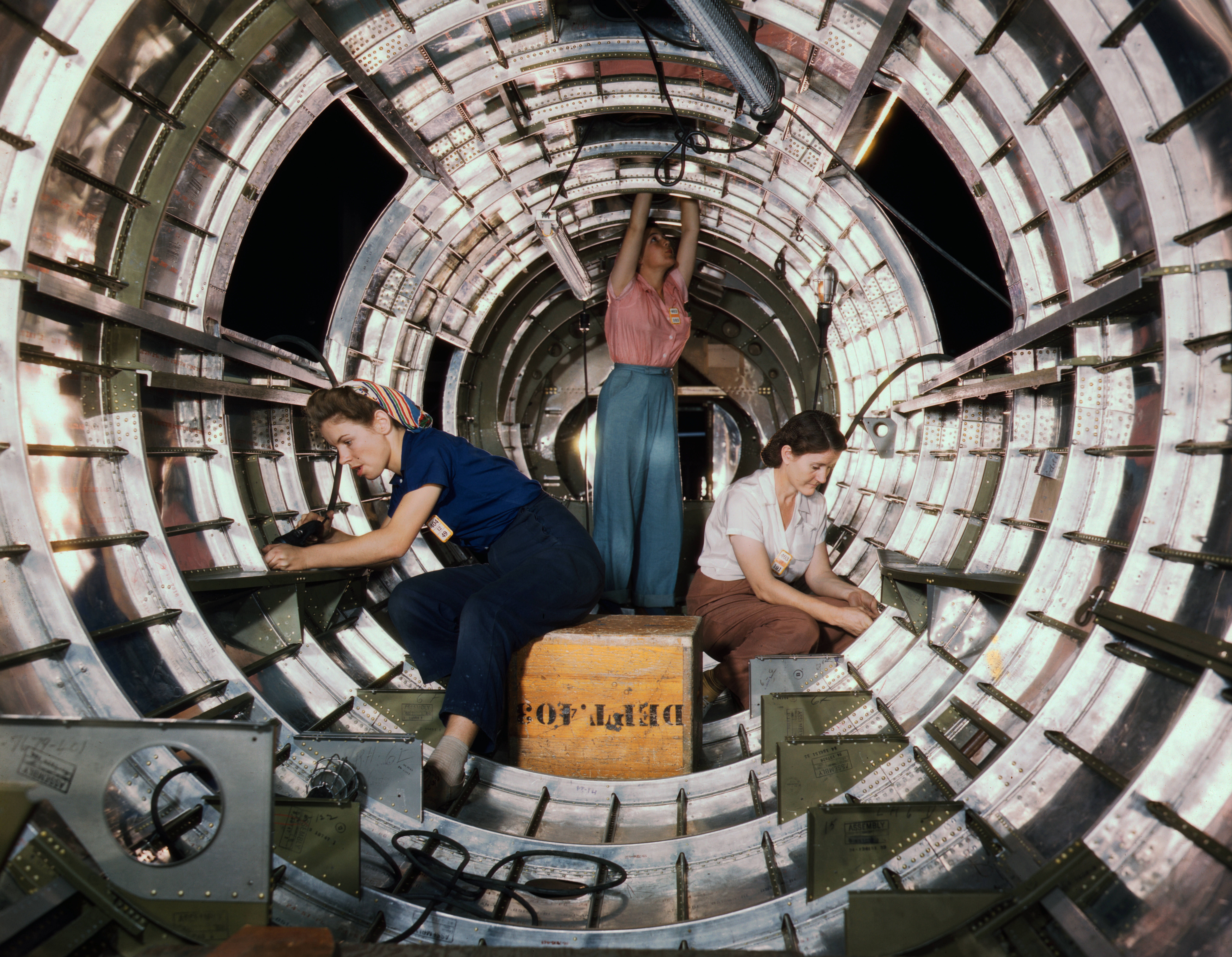 Women workers install fixtures and assemblies to a tail fuselage section of a B-17 bomber at the Douglas Aircraft Company plant, Long Beach, Calif. Better known as the "Flying Fortress," the B-17F is a later model of the B-17, which distinguished itself in action in the south Pacific, Germany and elsewhere. It is a long range, high altitude, heavy bomber, with a crew of seven to nine men, and with armament sufficient to defend itself on daylight missions.